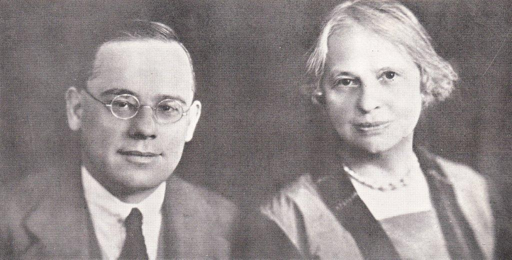 Jan Hofmeyr with his mother Deborah. She would live with her son all of his life. He never married. J.H. Hofmeyr (left) died 8 months after this photograph was published, and his mother Mrs D.C. Hofmeyr (right) died ten years after this photograph was published, in 1958.